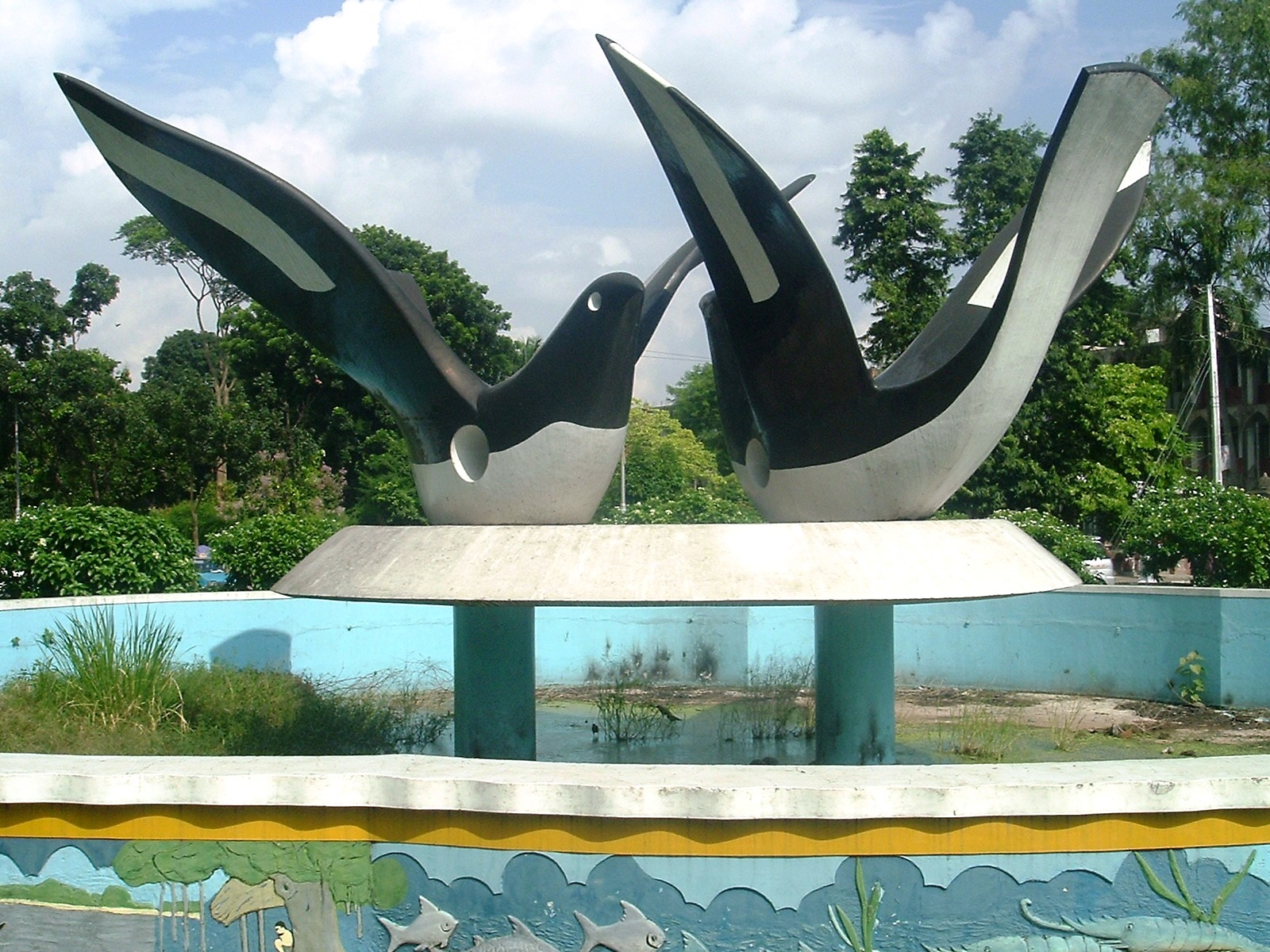 Doyel Chatwar, at Dhaka University Campus.